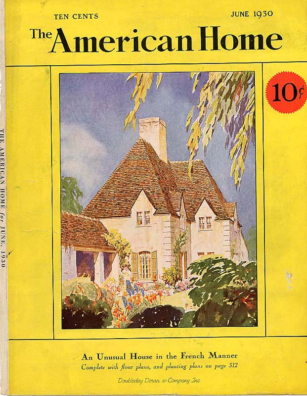 Cover of the June 1930 issue of The American Home magazine.